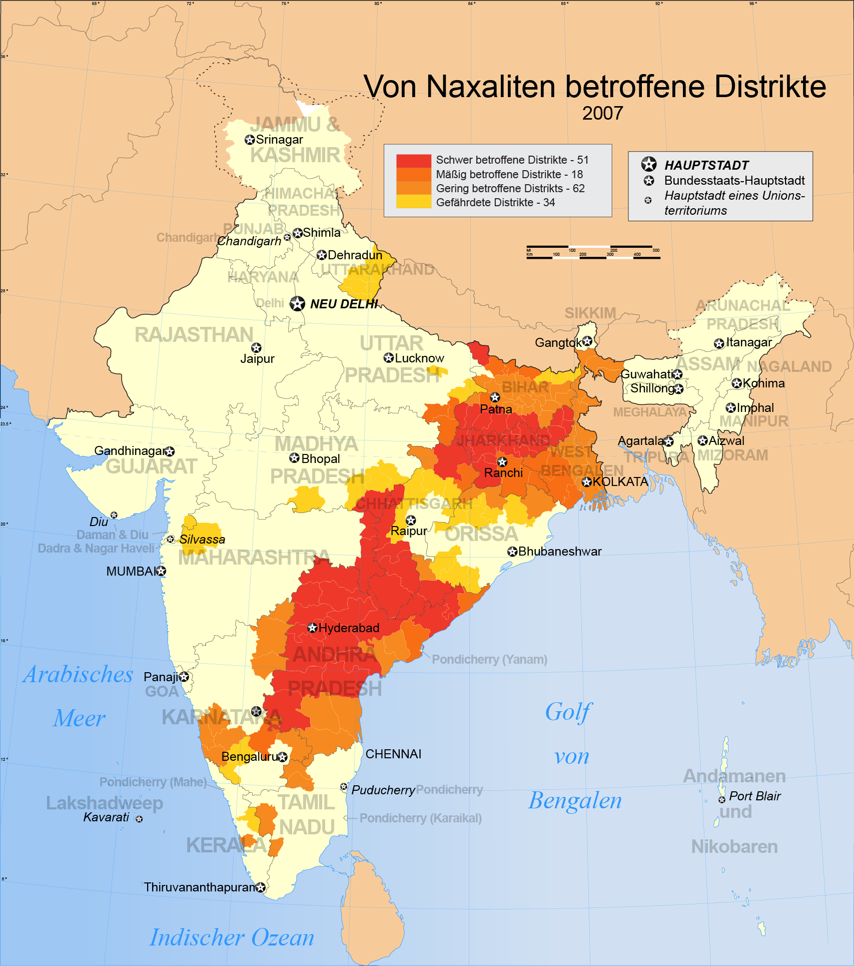 Map showing the districts in India affected by Naxals.